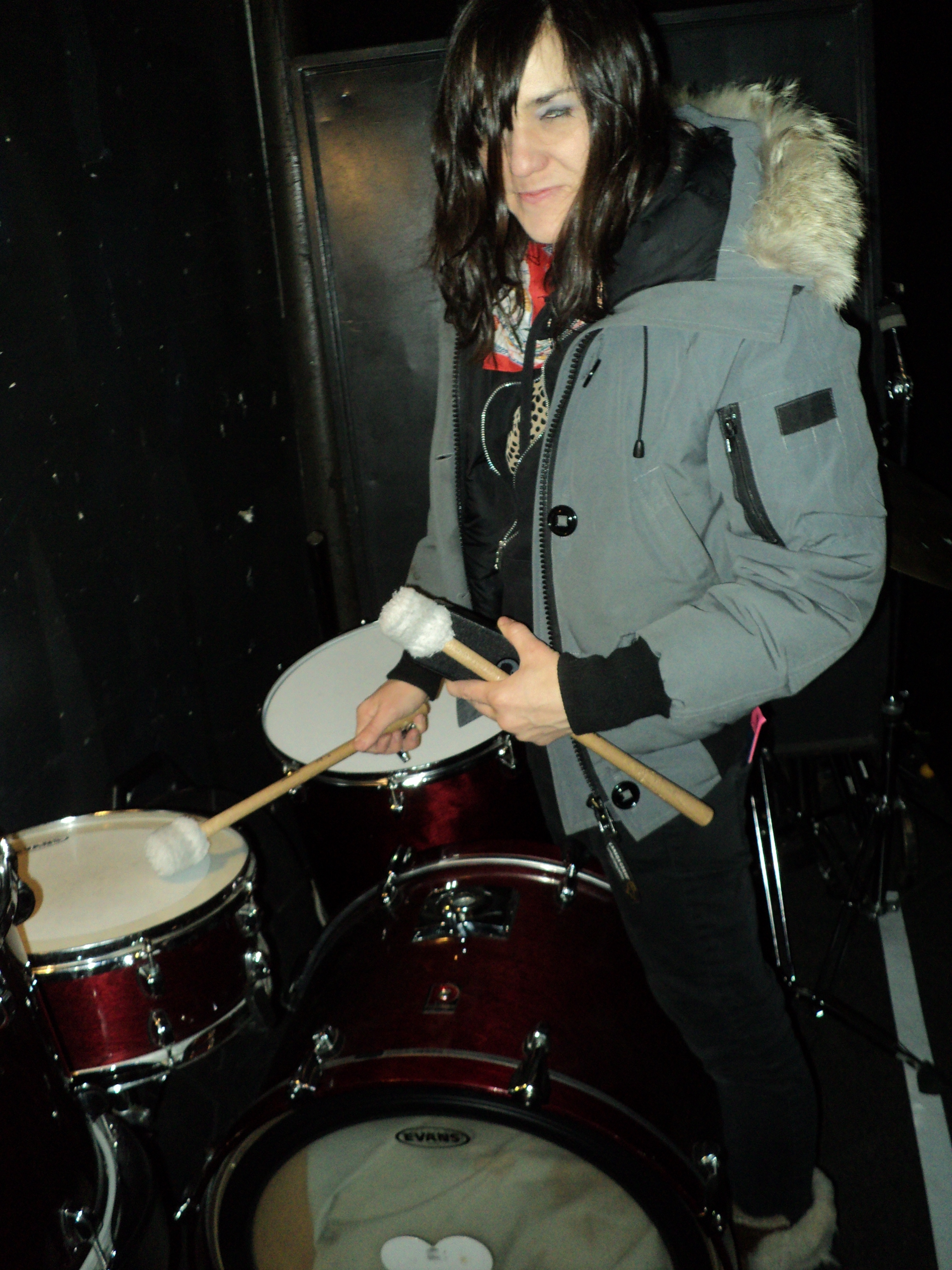 Emily Wells tunes her drums backstage at The Neurolux in Boise, Idaho during the final day of the second annual Treefort Music Fest.